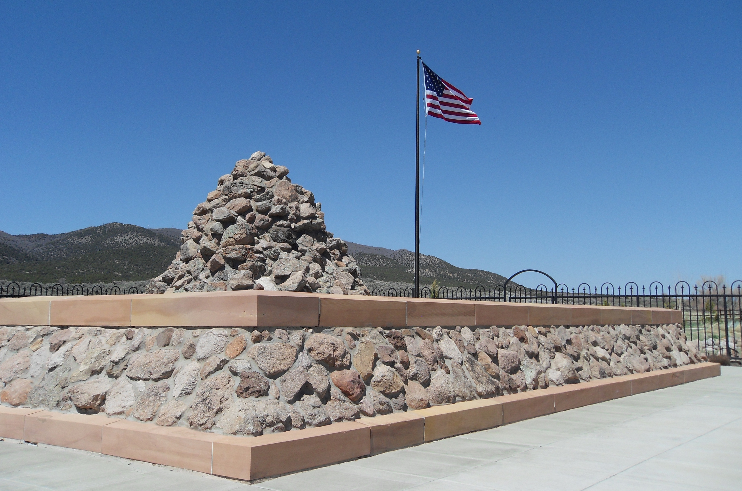 A view of the 1999 Monument and cairn replica in Mountain Meadows, Utah. This monument was built for the victims of the Mountain Meadows massacre.